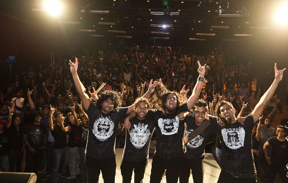 Stigmata at the concert to celebrate the 10 year anniversary of their Hollow Dreams album